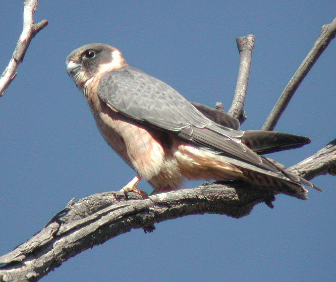 Australian Hobby (Falco longipennis) Pikedale, S. Queensland, Australia